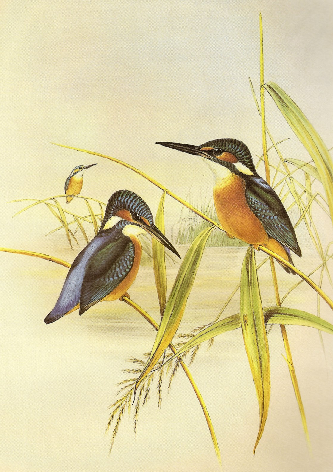 Common Kingfisher Alcedo atthis bengalensis (Linnaeus)